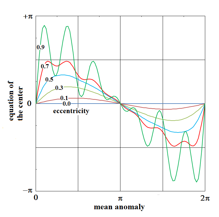 Graph of equation of the center vs mean anomaly for various values of orbital eccentricity. The equation of center was truncated at e^7 for all curves. Depicts how the truncated equation of center fails at high eccentricities.